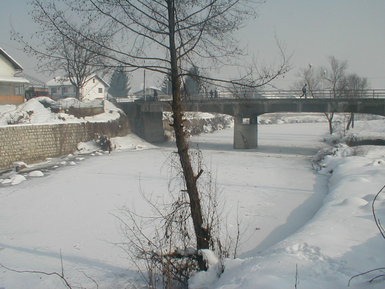 Ice covered river Usora